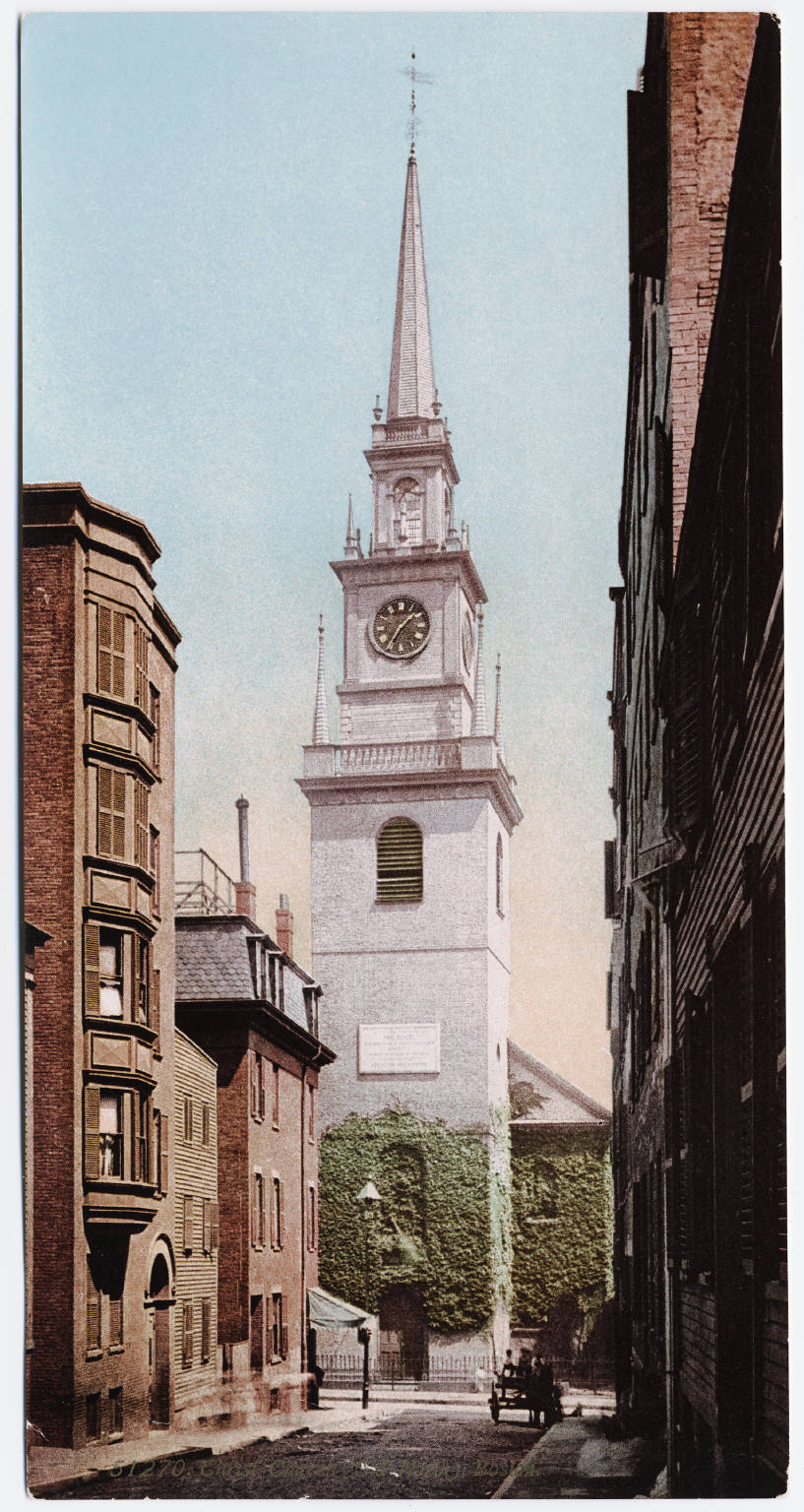 A photochrom postcard published by the Detroit Photographic Company.